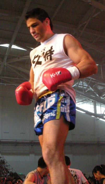 Cropped from original image.